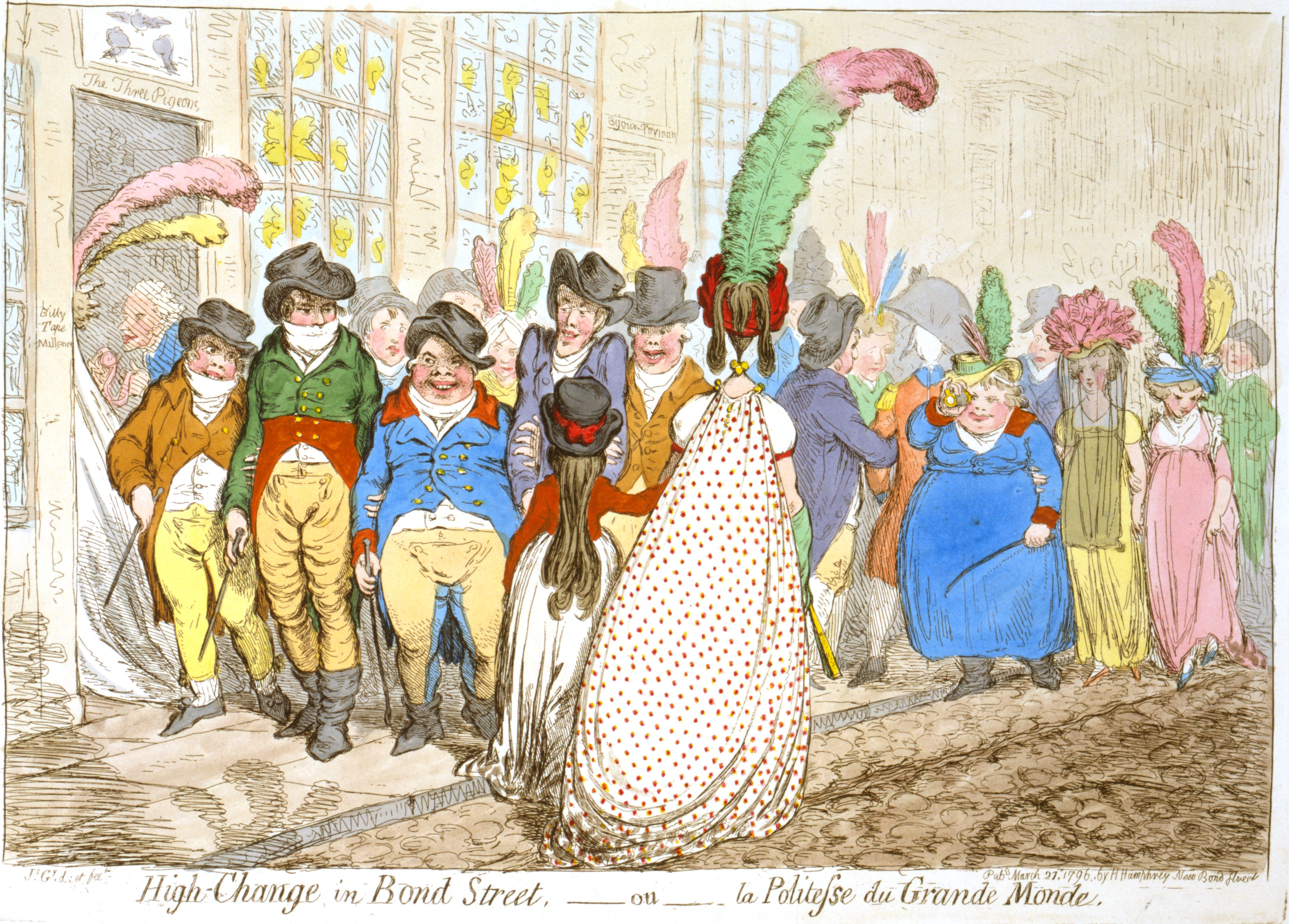 High-change in Bond Street,—ou—la Politesse du Grande Monde / Js. Gy d: et fect. SUMMARY: Fashionably dressed pedestrians on Bond Street. In the foreground, five men crowd a woman and girl off the sidewalk as they leer at them. The women, seen from the back, are oddly dressed. In the background, three ladies, also in exaggerated costumes, walking arm-in-arm in the roadway. MEDIUM: 1 print : etching, hand-colored. CREATED/PUBLISHED: [London] : H. Humphrey, 1796 March 27th. According to Wright & Evans, Historical and Descriptive Account of the Caricatures of James Gillray (1851, OCLC 59510372), p. 425, "This is understood to be a very fair attack on the want of courtesy in the gentlemen frequenters of Bond Street (the grand fashionable lounge at the time it was published), some of whom shewed no hesitation in taking the wall, and even the pavement of the ladies, throwing them, as here represented, into the street." Also satirizes the women's fashion of wearing one or a few vertical feathers in their headdresses.